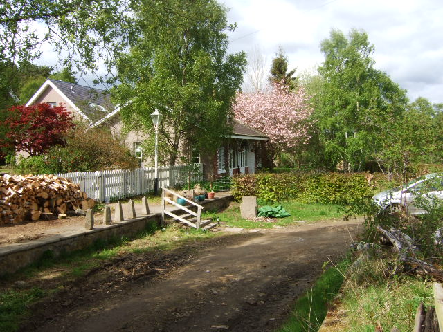 Dess Station Former ticket-office and platform on old Deeside Railway.